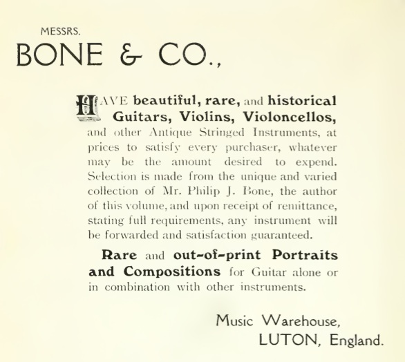 1914 advertisement for Bone & Co., for musical instruments owned by Philip J. Bone.